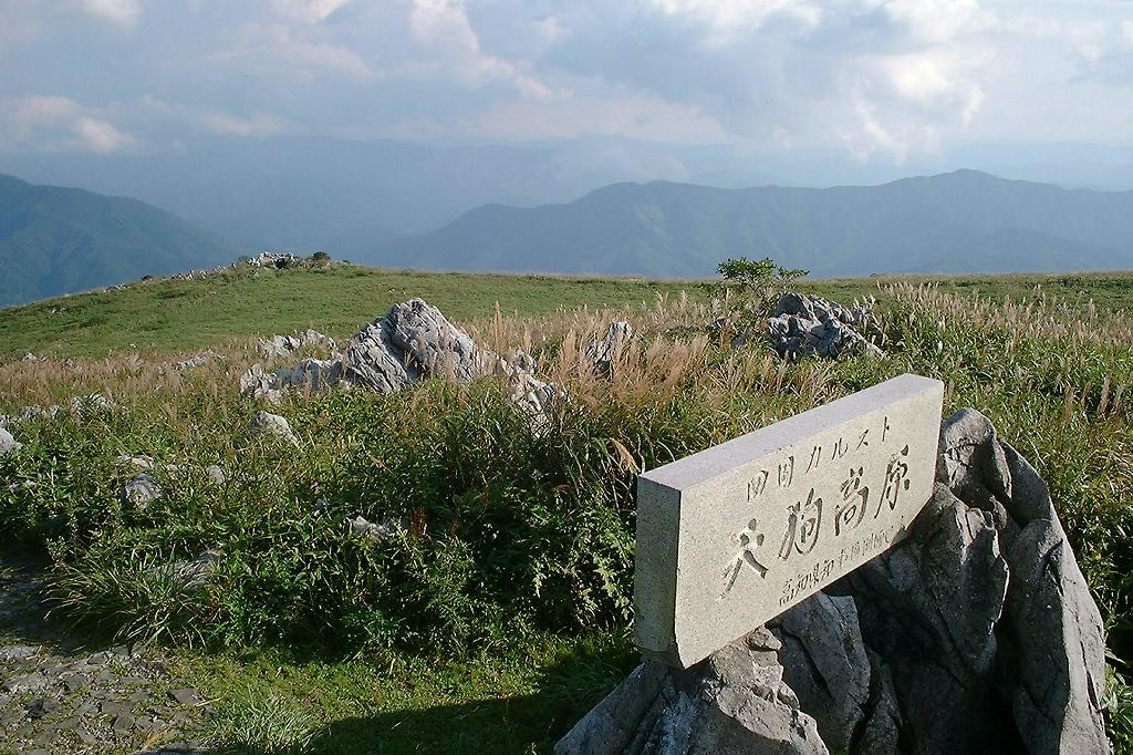 Tengu Highland on the border between Ehime and Kochi Prefectures, Japan